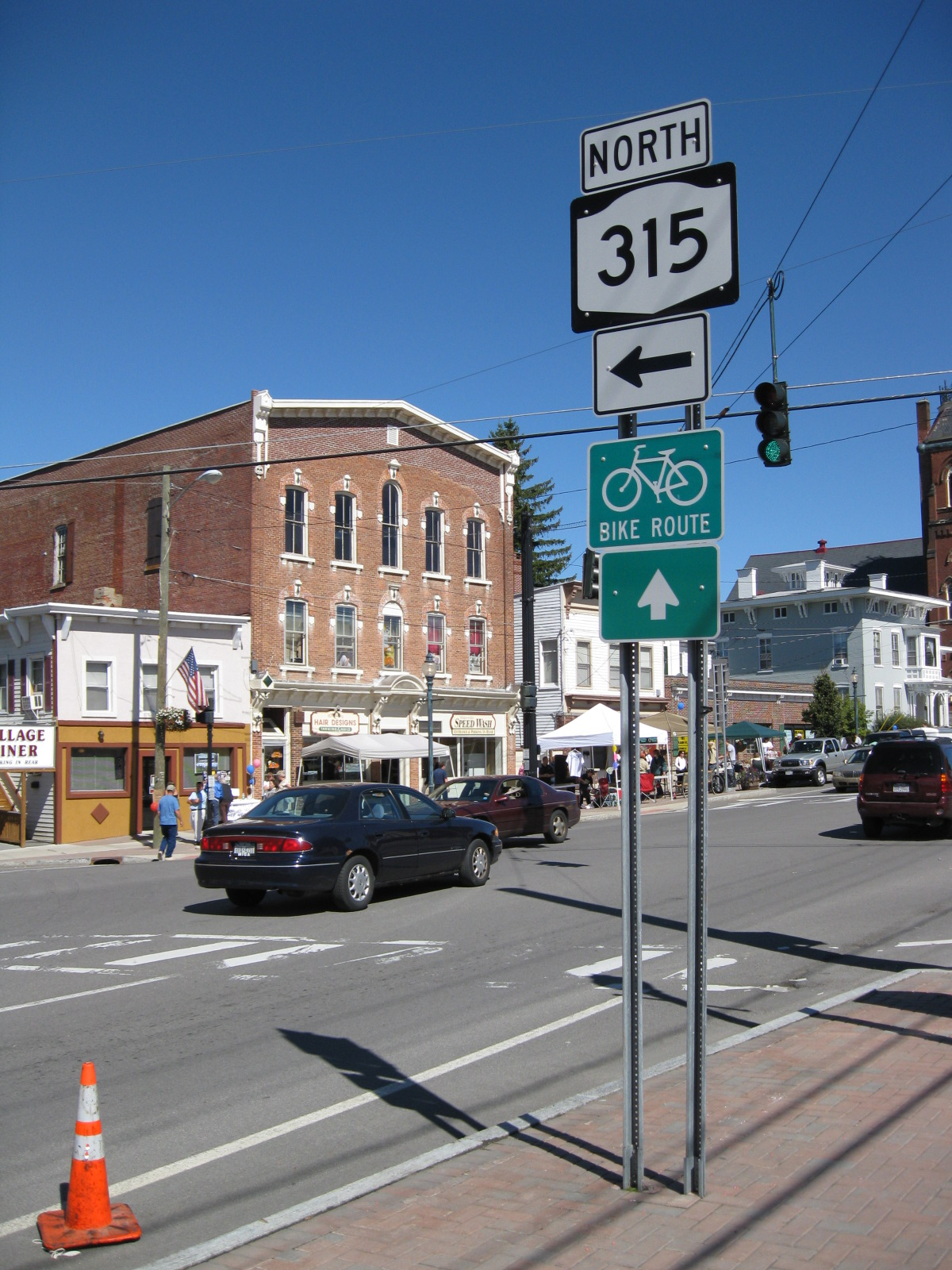 The southern terminus of Route 315 at an intersection with Route 12 in Waterville, New York.